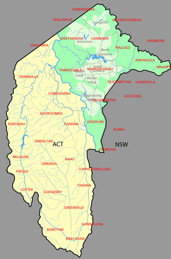 Parishes (shown in red) in the area of the Australian Capital Territory. The ones wholly within the ACT are former parishes and do not exist anymore. The land in green was part of Murray County, that in yellow part of Cowley County. (Divided by the Murrumbidgee River)